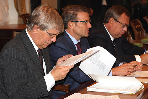 THE KREMLIN, MOSCOW. Meeting on economic issues. Russian Central Bank Chairman Sergei Ignatyev, Chairman of the Board and Chief Executive Officer of Sberbank German Gref, Chairman of the Board and Chief Executive Officer of Vneshtorgbank Andrei Kostin.